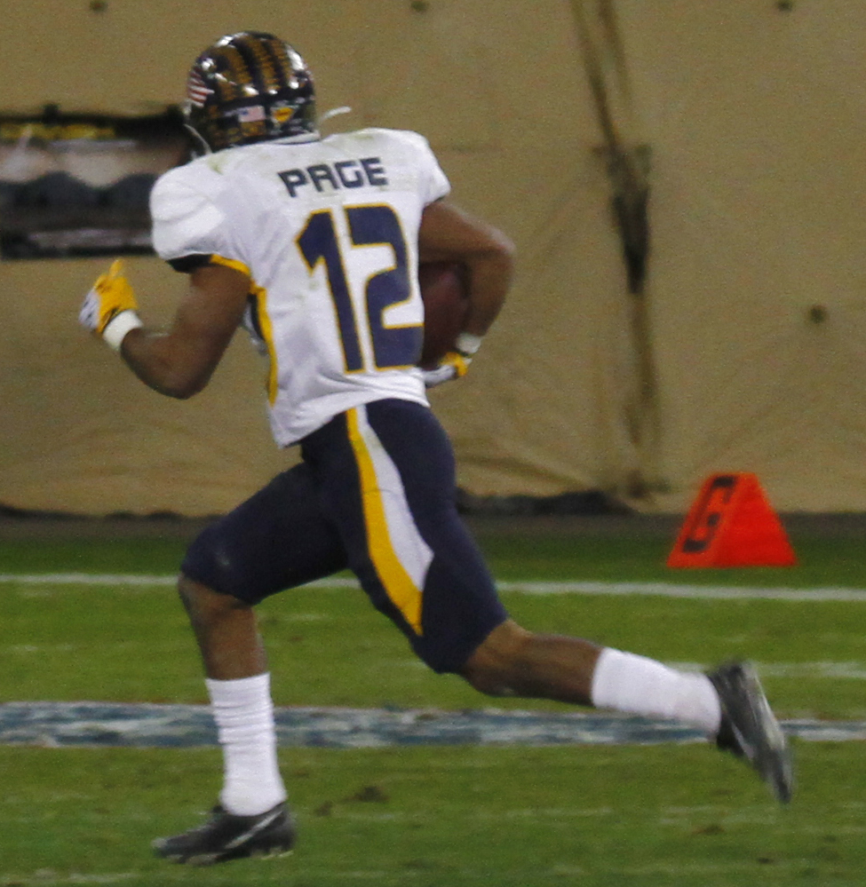 Eric Page of the Toledo Rockets is pursued by Air Force Falcons defenders during the 2011 Military Bowl at RFK Stadium in Washington, D.C.